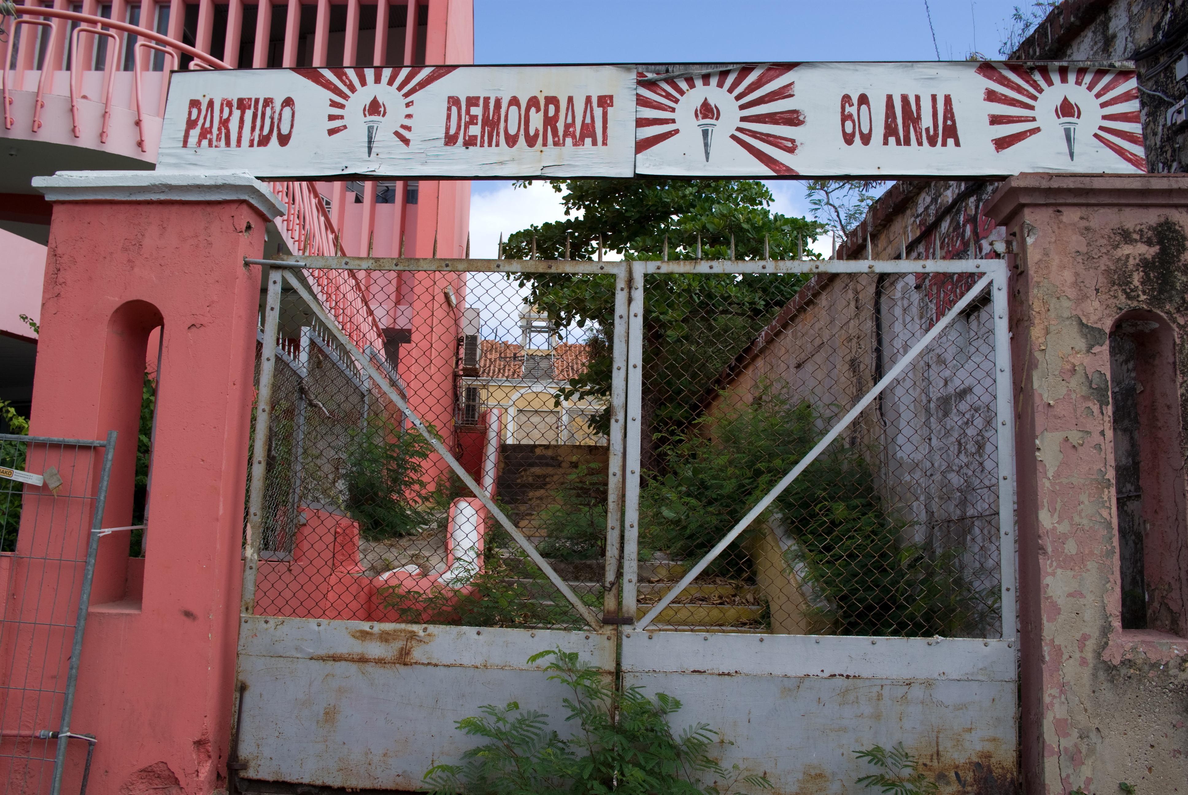 "Democrat Party - 60 Years," Willemstad